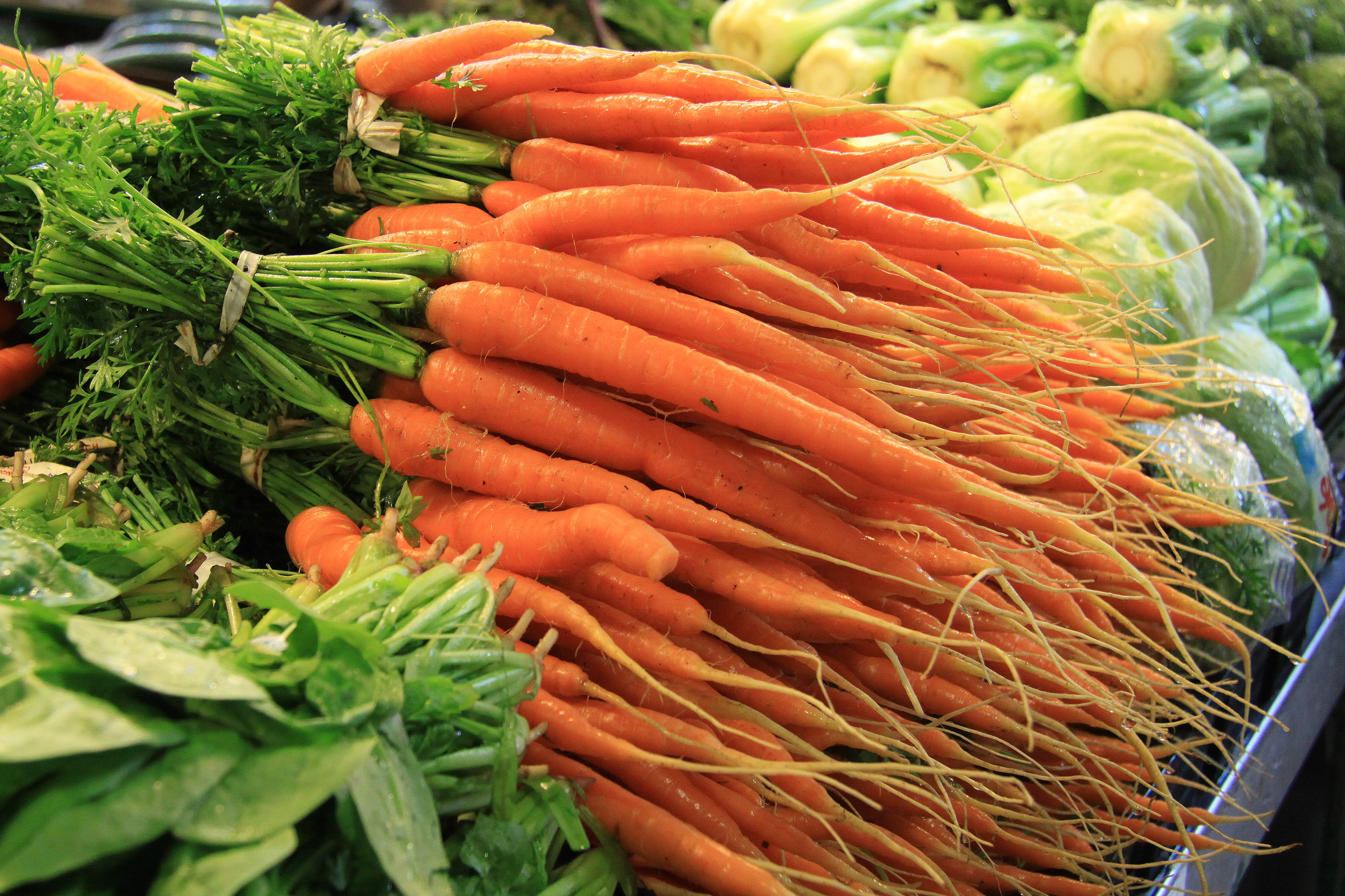 Carrots on the market at Granville Island, Vancouver